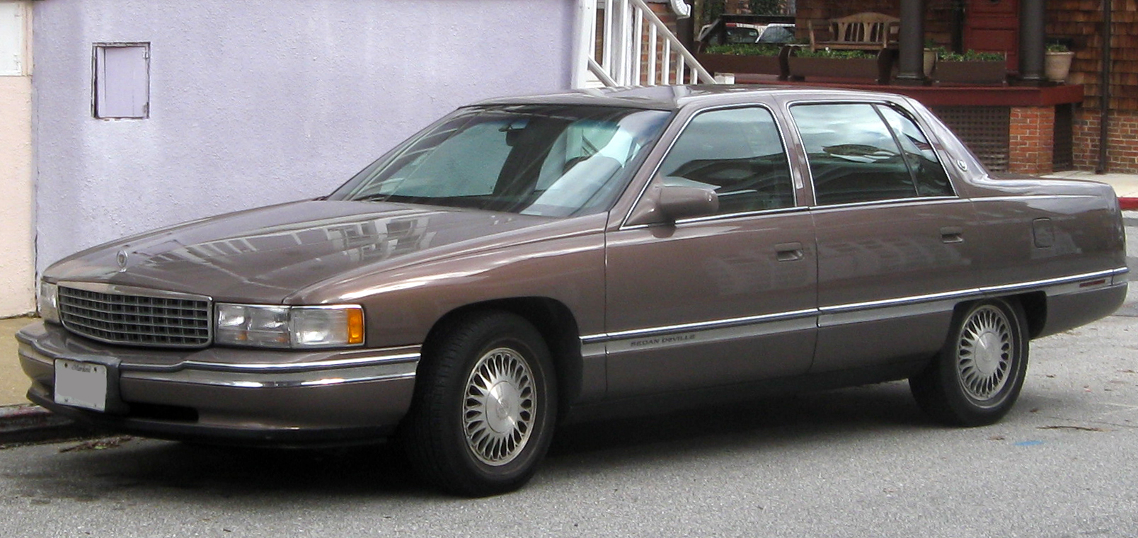 1994-1996 Cadillac Deville photographed in Annapolis, Maryland, USA.